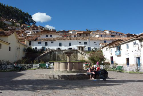 cusco san blas